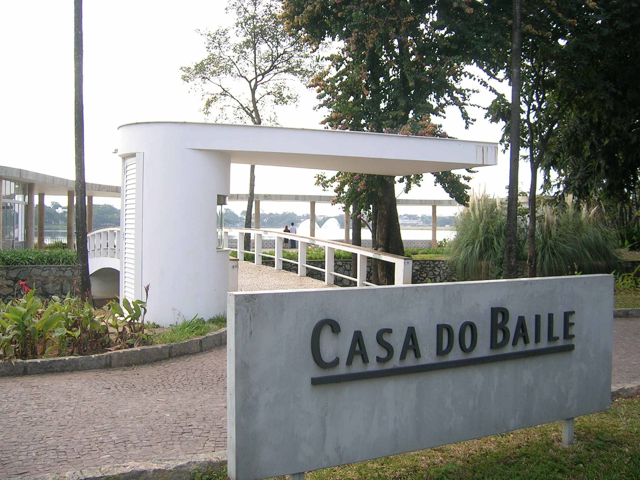 Casa do Baile, Pampulha, Belo Horizonte